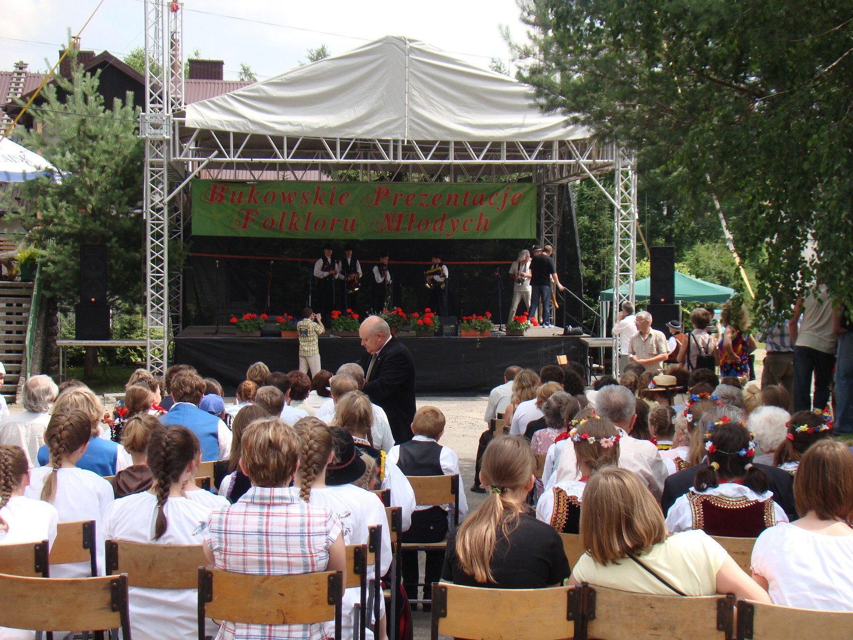 Folk festival in Bukowsko.